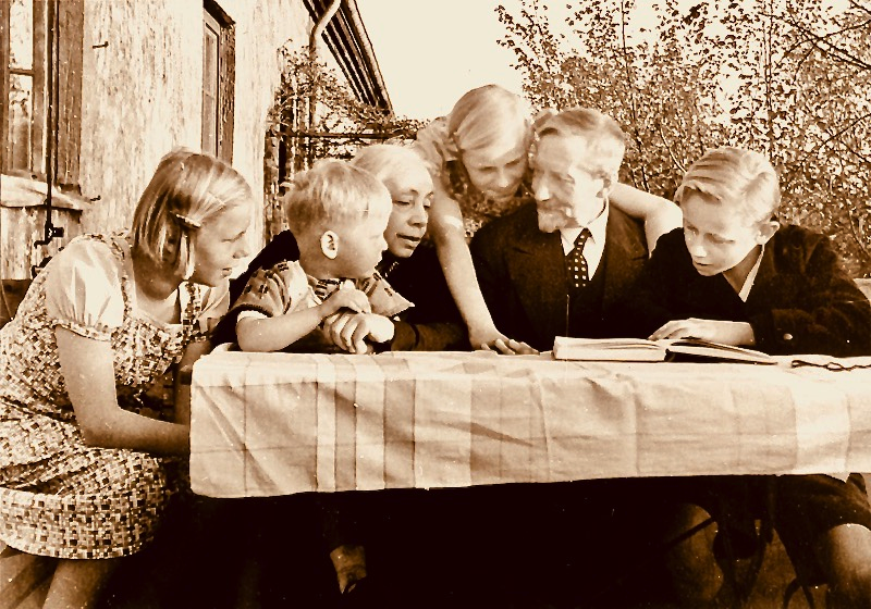 Käthe Kollwitz (1867–1945) and her husband Karl Kollwitz (1863–1940) with their four grandchildren Peter (1921–1942), Jordis and Jutta (* 1923) and Arne (* 1930) in Berlin-Prenzlauer Berg, Weißenburger Straße 25. They are the children of their eldest son Hans Kollwitz (1892–1971) and his wife Ottilie (1900–1963), née Ehlers.